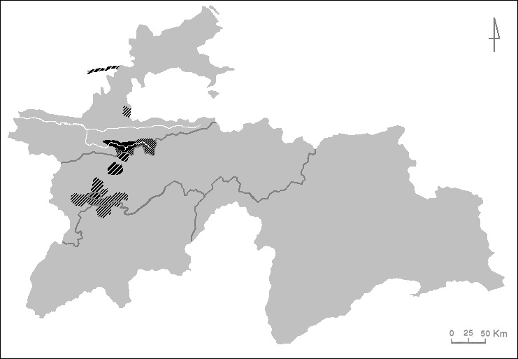 Map of regions settled by the Yaghnobis